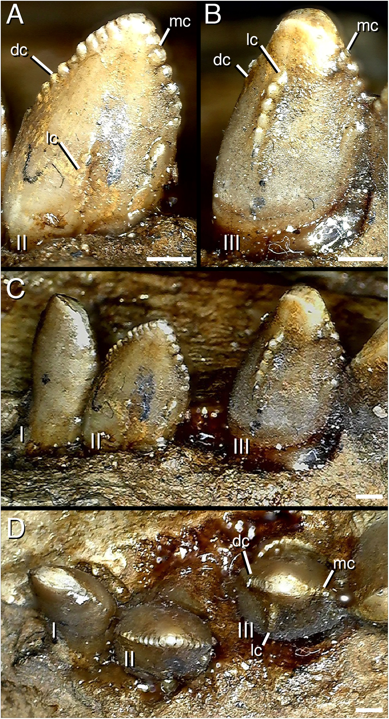 Distalmost dentary teeth (22nd–24th) of Segnosaurus galbinensis MPC-D 100/80. (A) 23rd tooth crown in lingual view; (B) 22nd tooth crown in lingual view; (C) 22nd–24th tooth crowns in lingual view; (D) 22nd–24th tooth crowns in occlusal view. Abbreviations: I, 24th tooth; II, 23rd tooth; III, 22nd tooth; dc, distal carina; mc, mesial carina; lc, lingual (accessory) carina. Scale bar 1 mm.